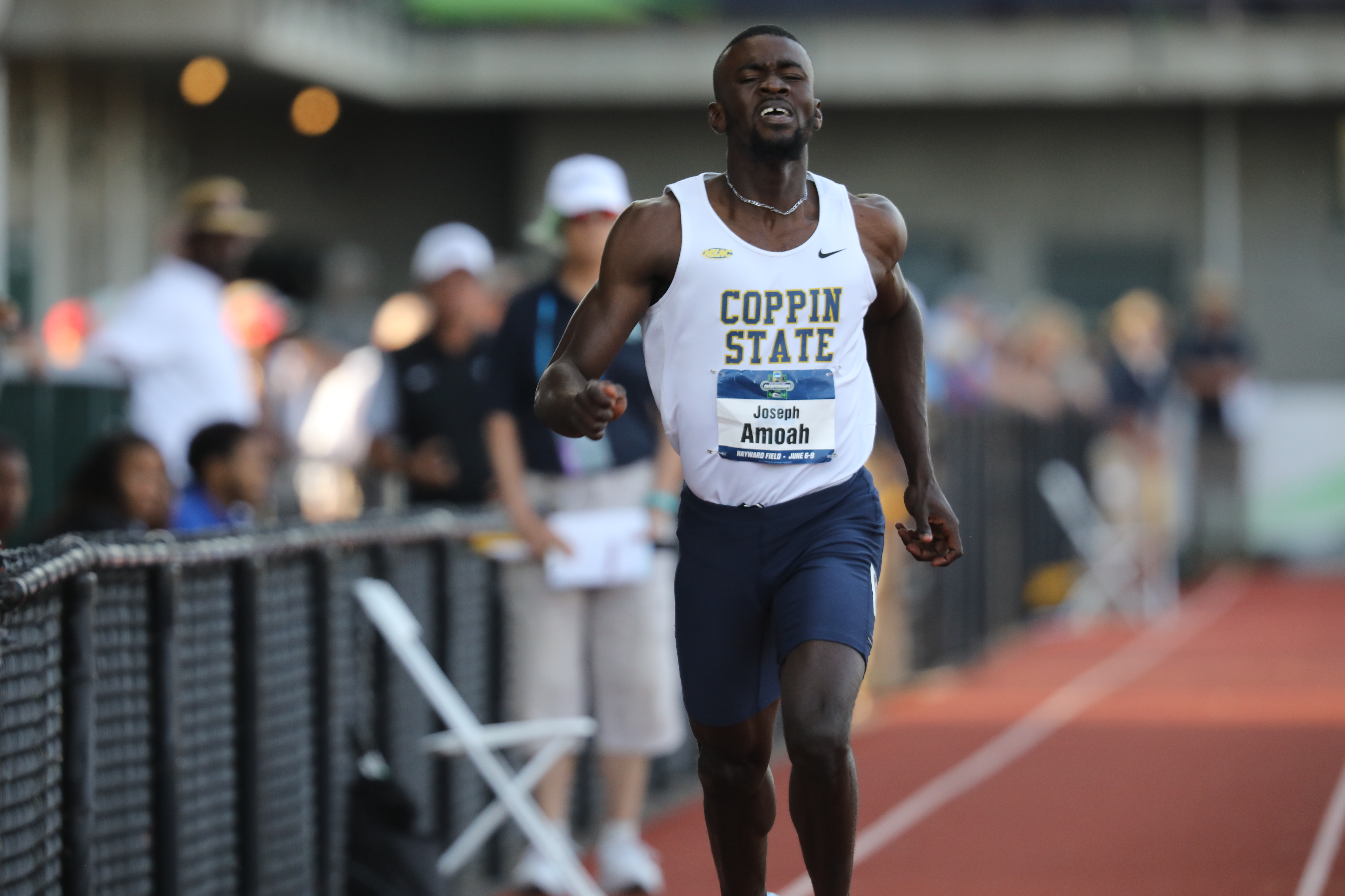 2018 NCAA Division I Outdoor Track and Field Championships